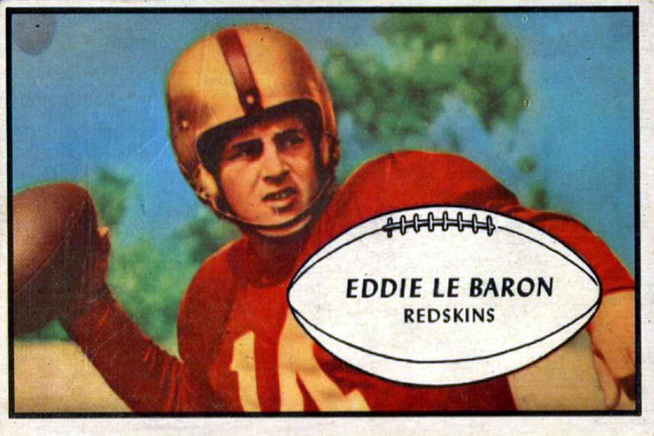 American football player Eddie LeBaron on a 1953 Bowman card.